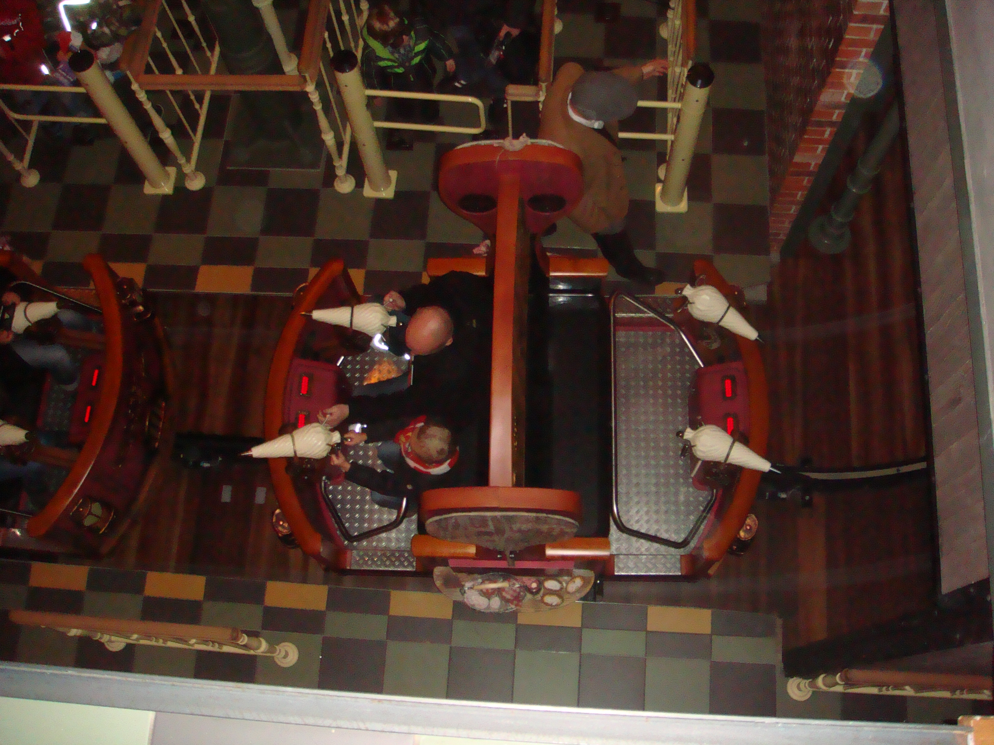 Maus au Chocolat at Phantasialand